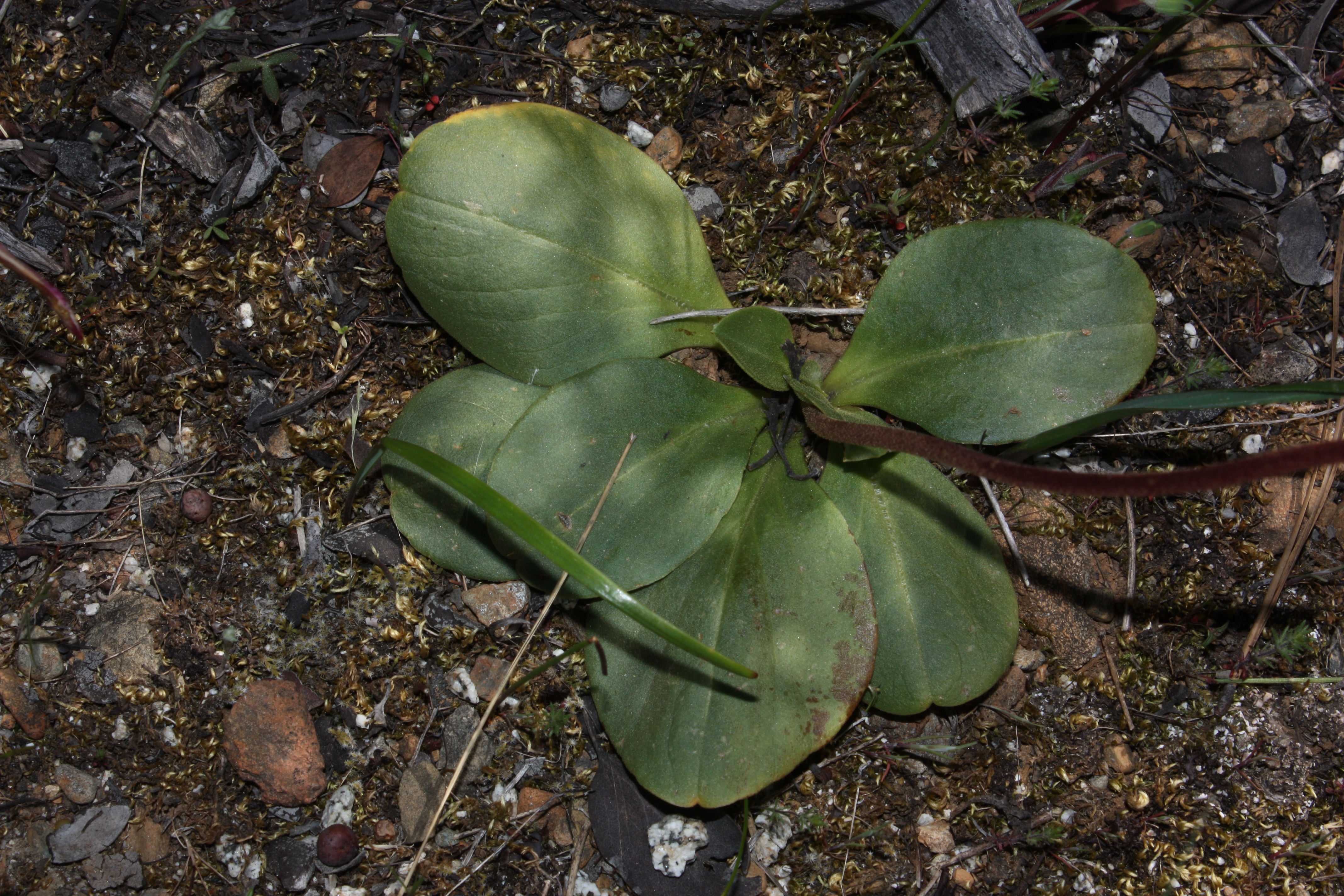 Shooting Star, Foothill Shooting Star, Mosquito Bills Viewpoint location: Trail at Rough and Ready Flat Botanical Area Viewpoint elevation: 425 meter (1396 ft) Location source: Garmin GPSmap 60CSx Location Datum: WGS84